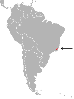 Range of Nemosia rourei